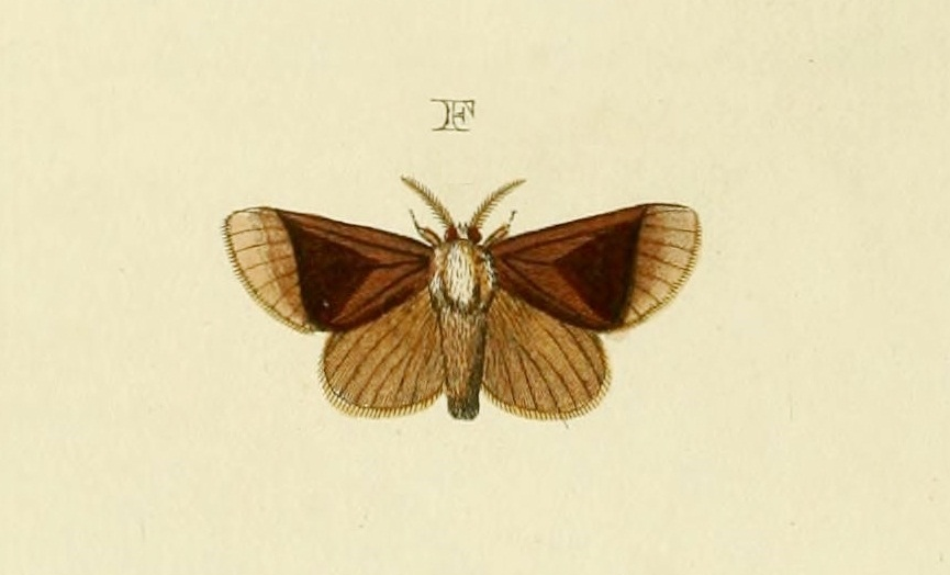 Natada simois in Volume 4 of "De uitlandsche kapellen: voorkomende in de drie waereld-deelen Asia, Africa en America = Papillons exotiques des trois parties du monde, l'Asie, l'Afrique et l'Amérique